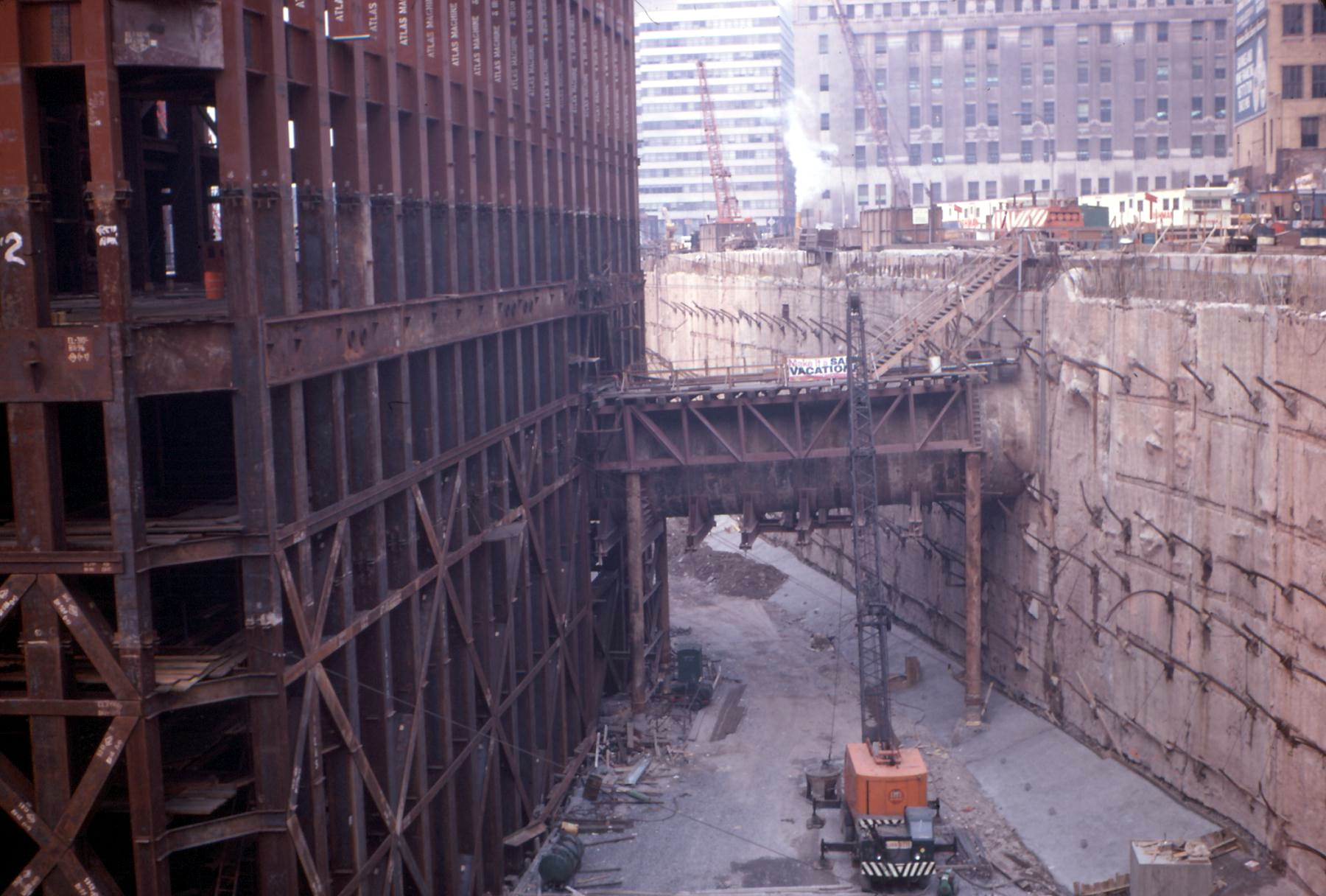 1969 view of the original WTC bathtub looking northeast. The frame of the south tower is on the left. PATH eastbound tunnel F can be seen in the center, penetrating the slurry wall on its way up Cortlandt Street to Hudson Terminal. (Remnants of this tunnel can still be seen today.) The slurry wall runs along the west side of Greenwich Street. The IRT subway tunnel runs below the street (behind the slurry wall).